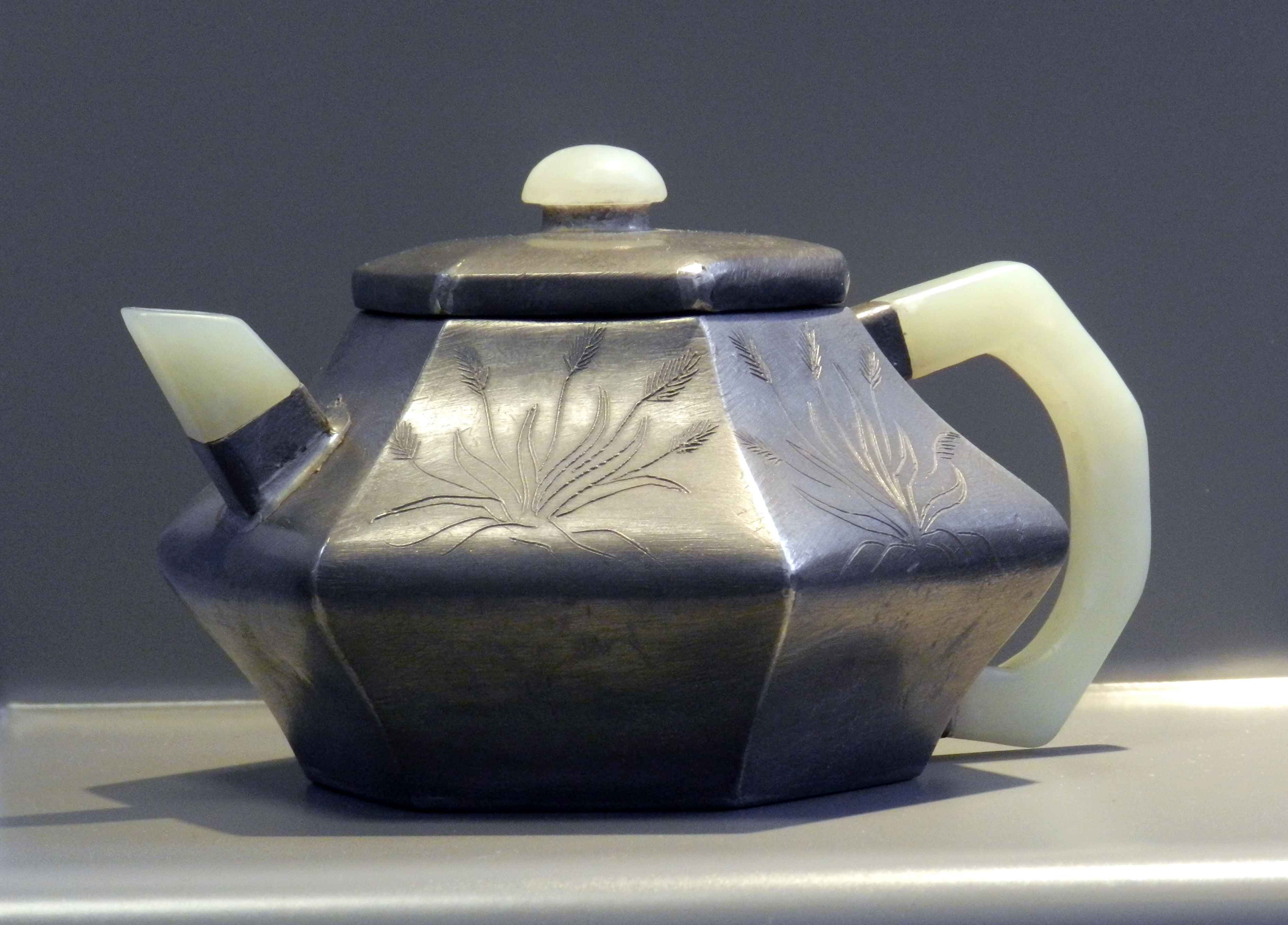 Grès de Yixing recouvert d'étain à décor gravé; Jade Cachet : Yang Pengnian zhi (fait par Yang Pengnian) Chine, Qing (1644 - 1911) This is a file created at the museum: Musée royal de Mariemont in Morlanwelz